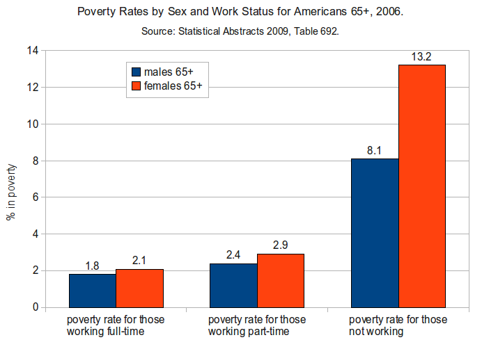 This is a figure illustrating the different rates of poverty by sex for Americans over 65 in 2006. It is based on Statistical Abstract data.